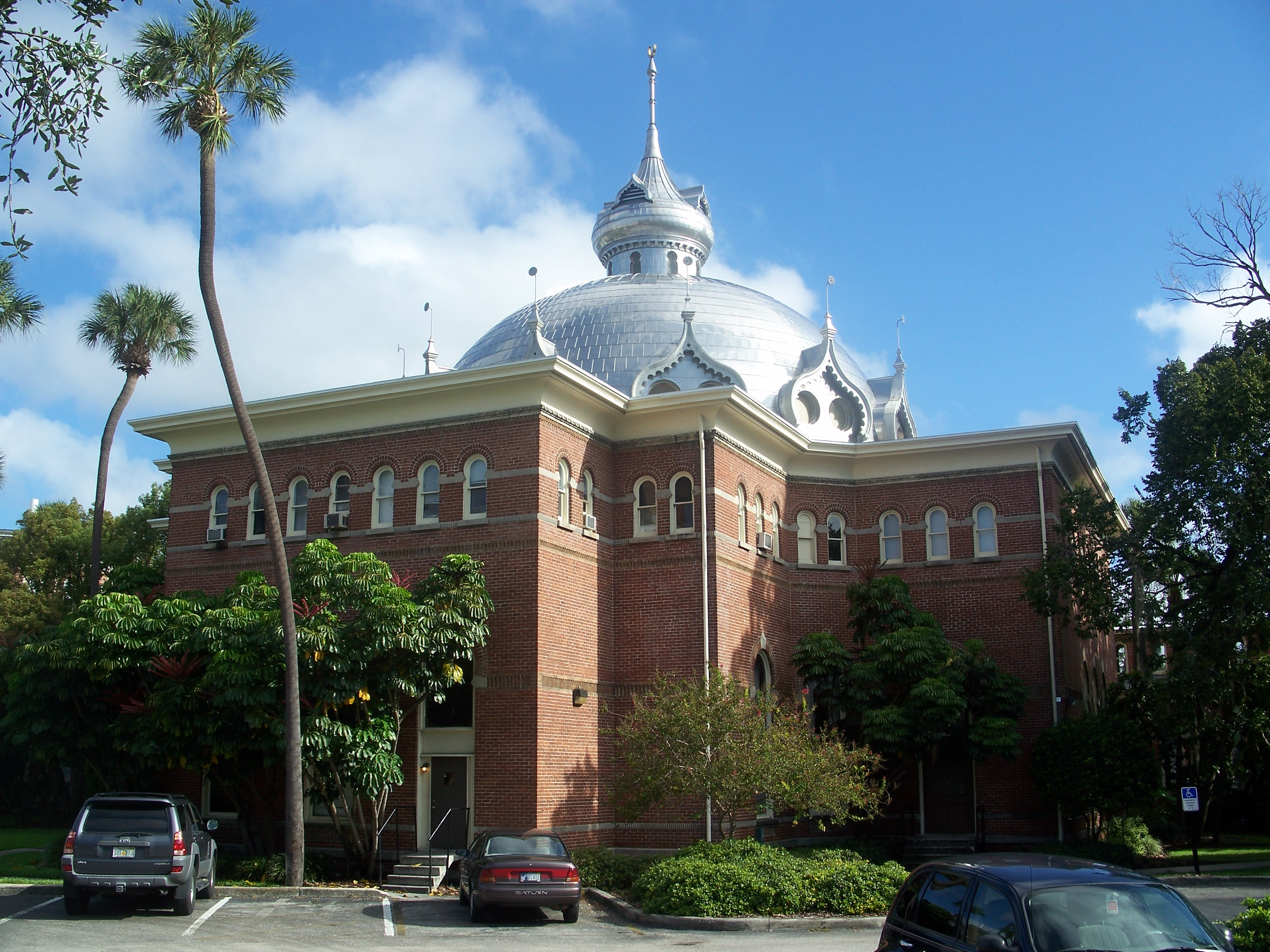 Old Tampa Bay Hotel, a National Historic Landmark, now part of the University of Tampa, in Tampa, Florida